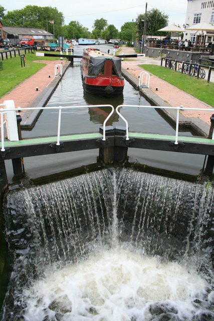 A Narrow Boat Enters Trent Lock Trent Lock has no by-pass so except when it is filling or emptying excess water pours over the lock gates.